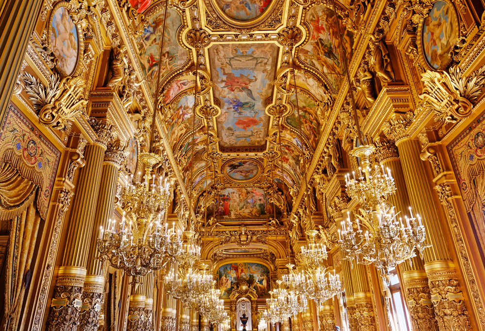 ceilings of the palais Garnier, opera of Paris